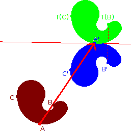 Generic inverting isometry created with a translation and a rotation, made with kig, by Toobaz (